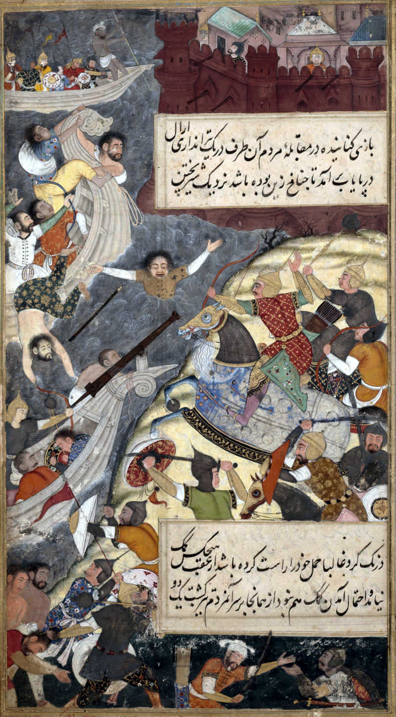 Babur crossing the Indus in the heat of battle, a painting commissioned by Akbar, c.1589; from the collection of the Aga Khan Museum (*more information*); click on the image for a large scan (downloaded Apr. 2011)